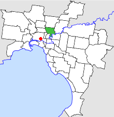 Location of the City of Northcote within Melbourne.